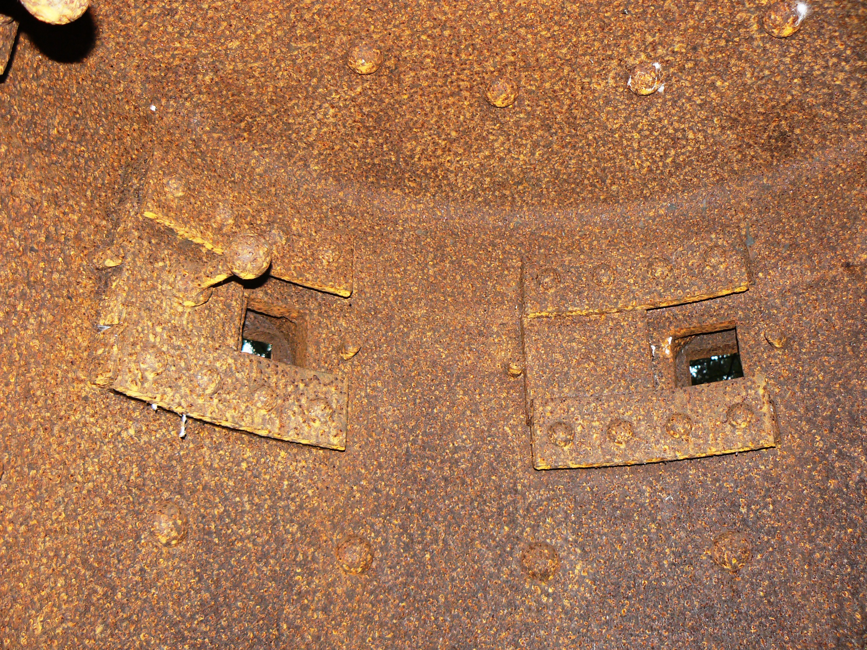 WWI Iron Observation Cupola on the German Bunker. Armoured Hasps on the Lookout Holes. Kaunas District, Lithuania Kategorija: Fortifikacija